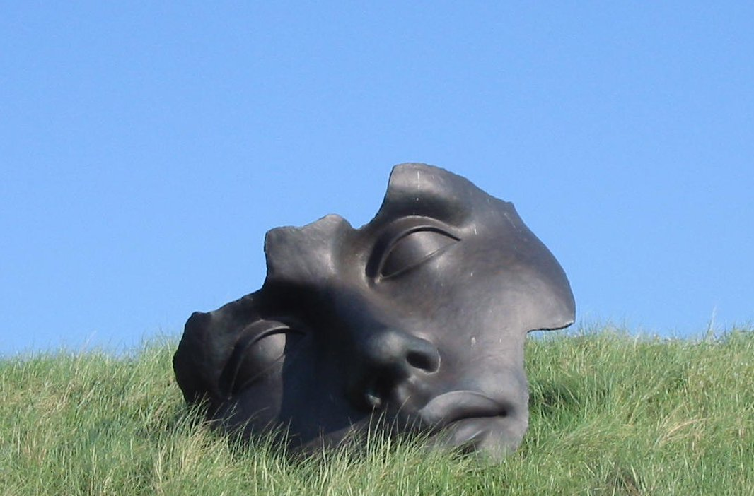 Artwork by Igor Mitoraj on the Beeld boulevard, Scheveningen, the Netherlands.